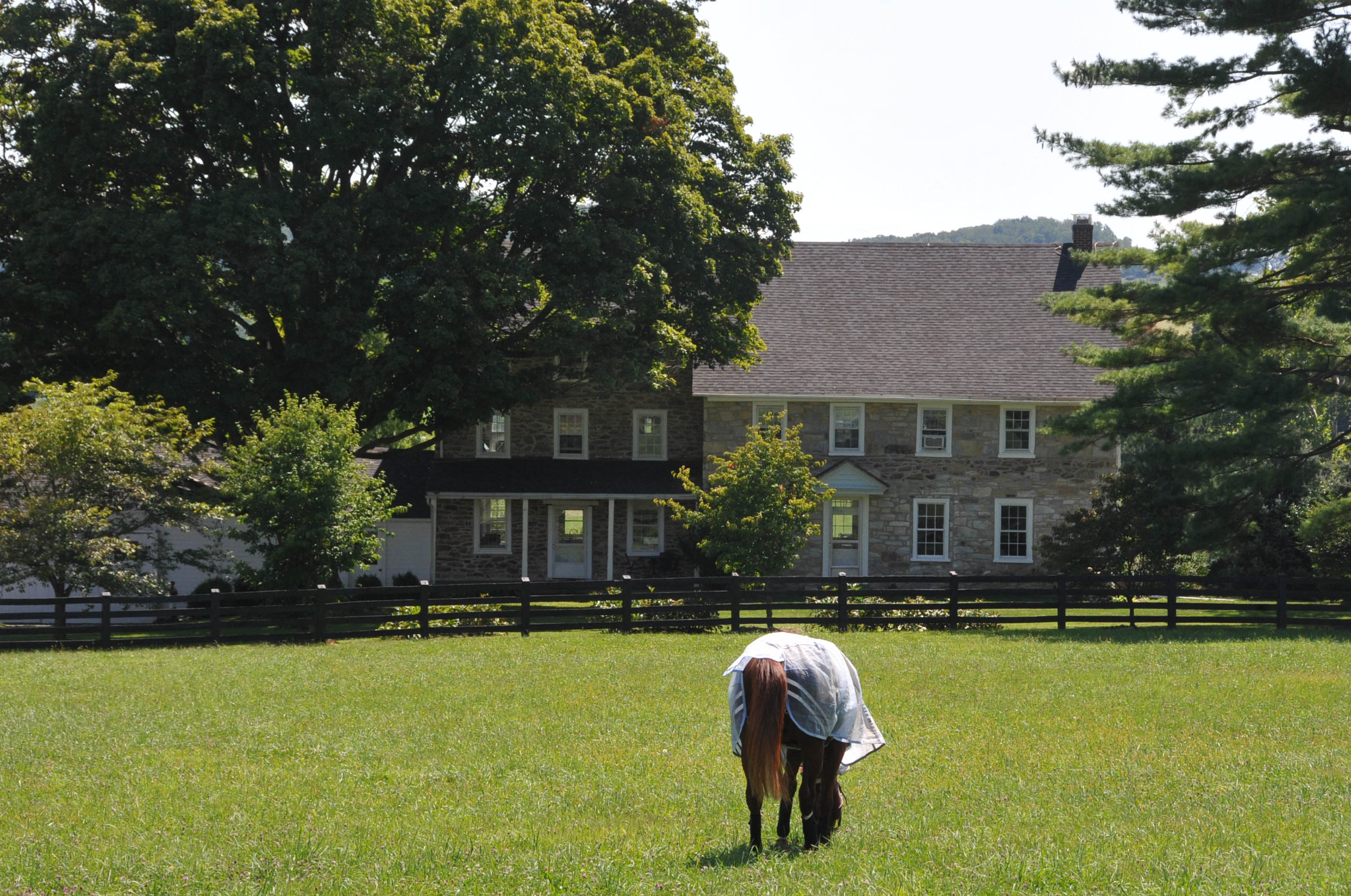 VERNACULAR FEDERAL CIRCA 1794